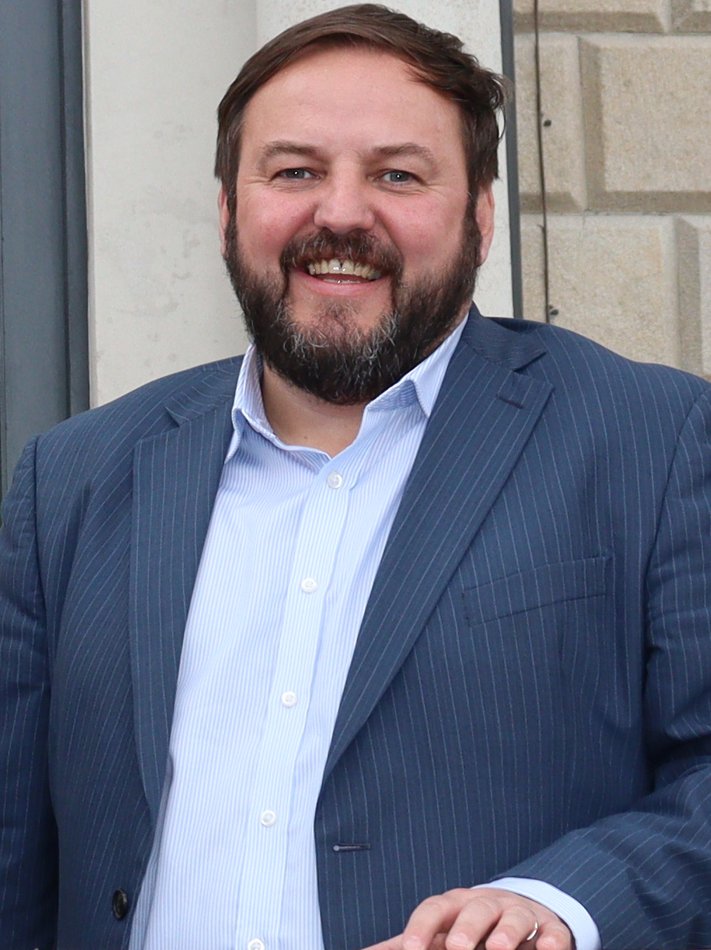 Irish politician Pádraig Mac Lochlainn of SInn Féin, taken in 2020.